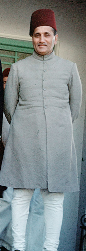 Scan from family photo taken, circa 1970. An old-fashioned Hyderabadi gentleman wearing a sherwani (tunic) and a tarbush (Fez hat)